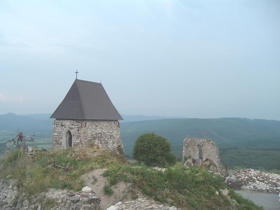 The chapel in the Castle of Füzér, Hungary